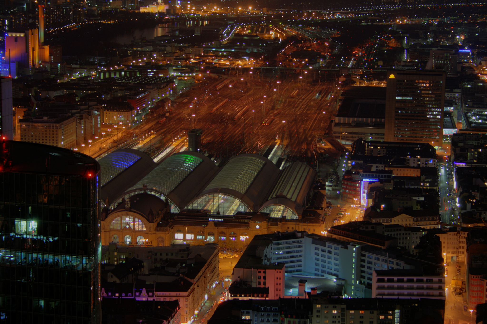 Frankfurt (Main), main station, from the roof of the Maintower.